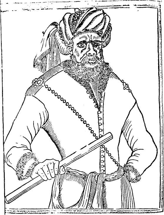 Portrait of Stepan Razin, published in a supplement to a Hamburg periodical. 1670.